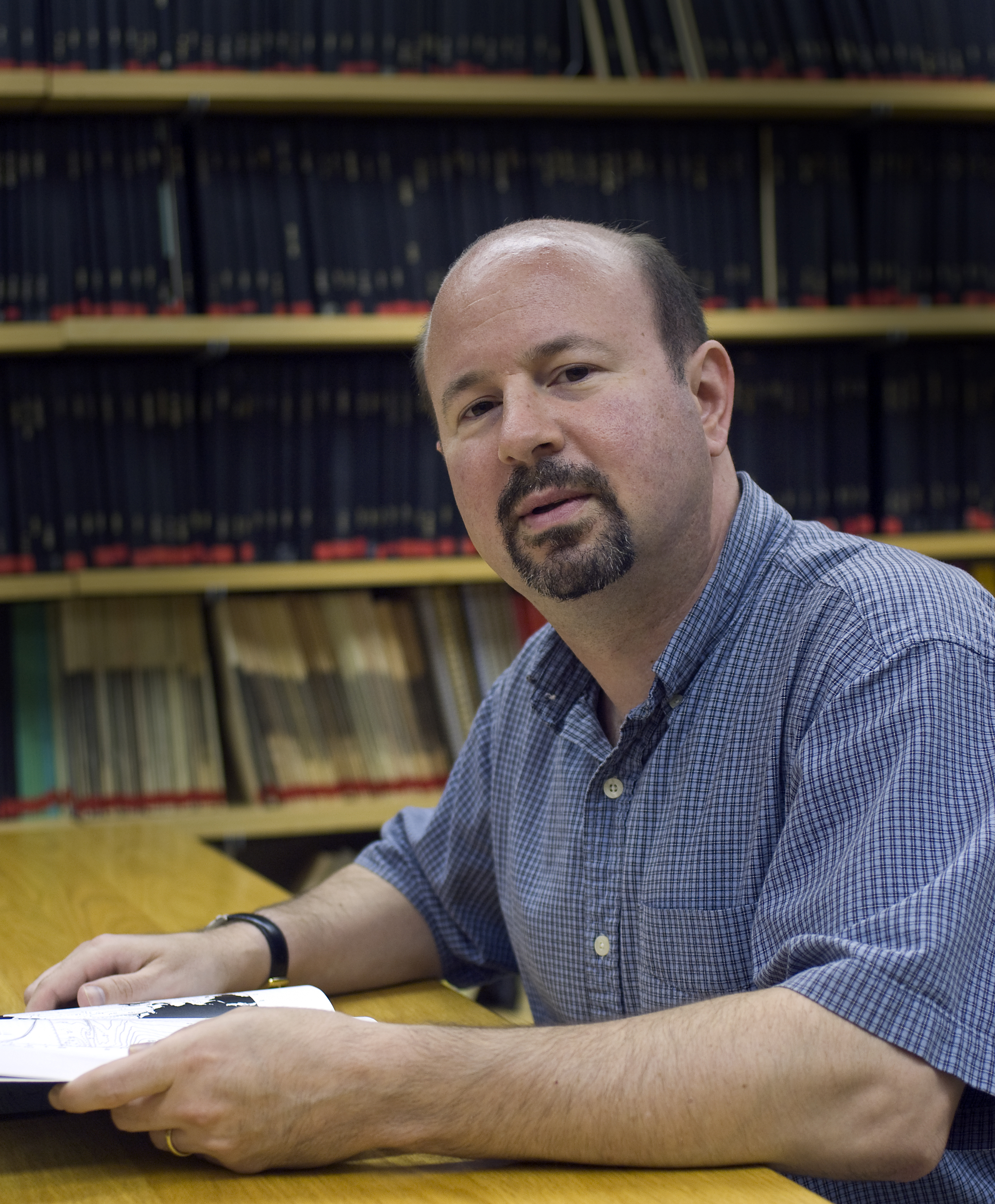 Michael E. Mann in 2010.